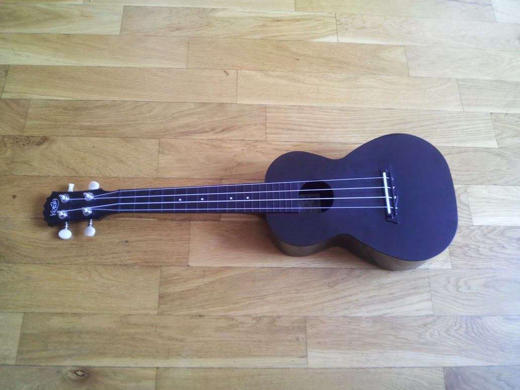 Korala plastic ukulele